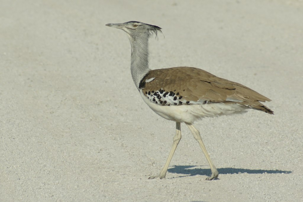 Kori Bustard in Etosha National Park, Namibia.